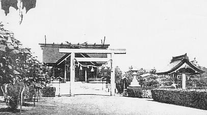 Jilin Shrine